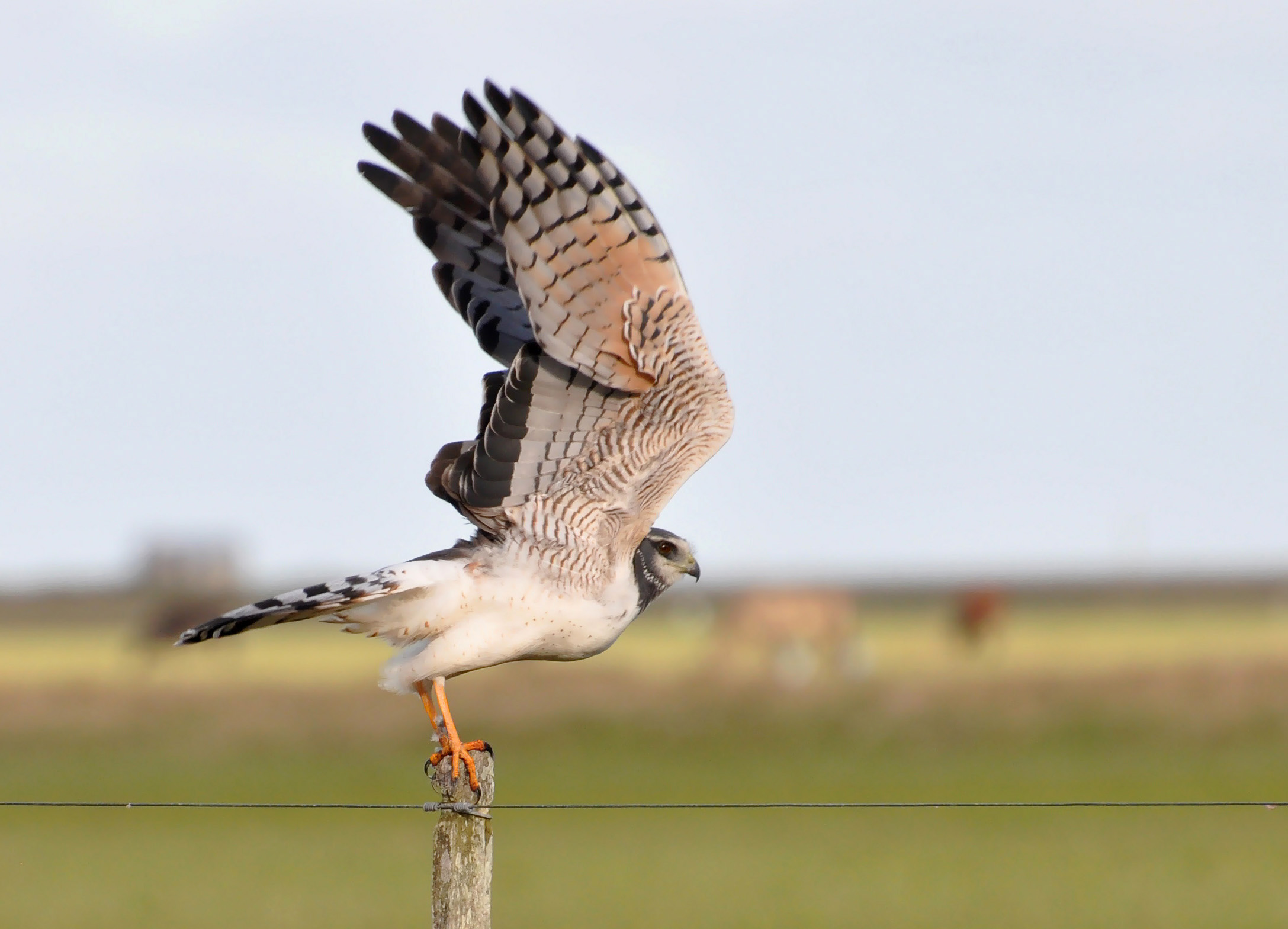 Male Long-winged Harrier (Circus buffoni), pale morph. Photographed in Rio Grande do Sul, Brazil, August 2010.